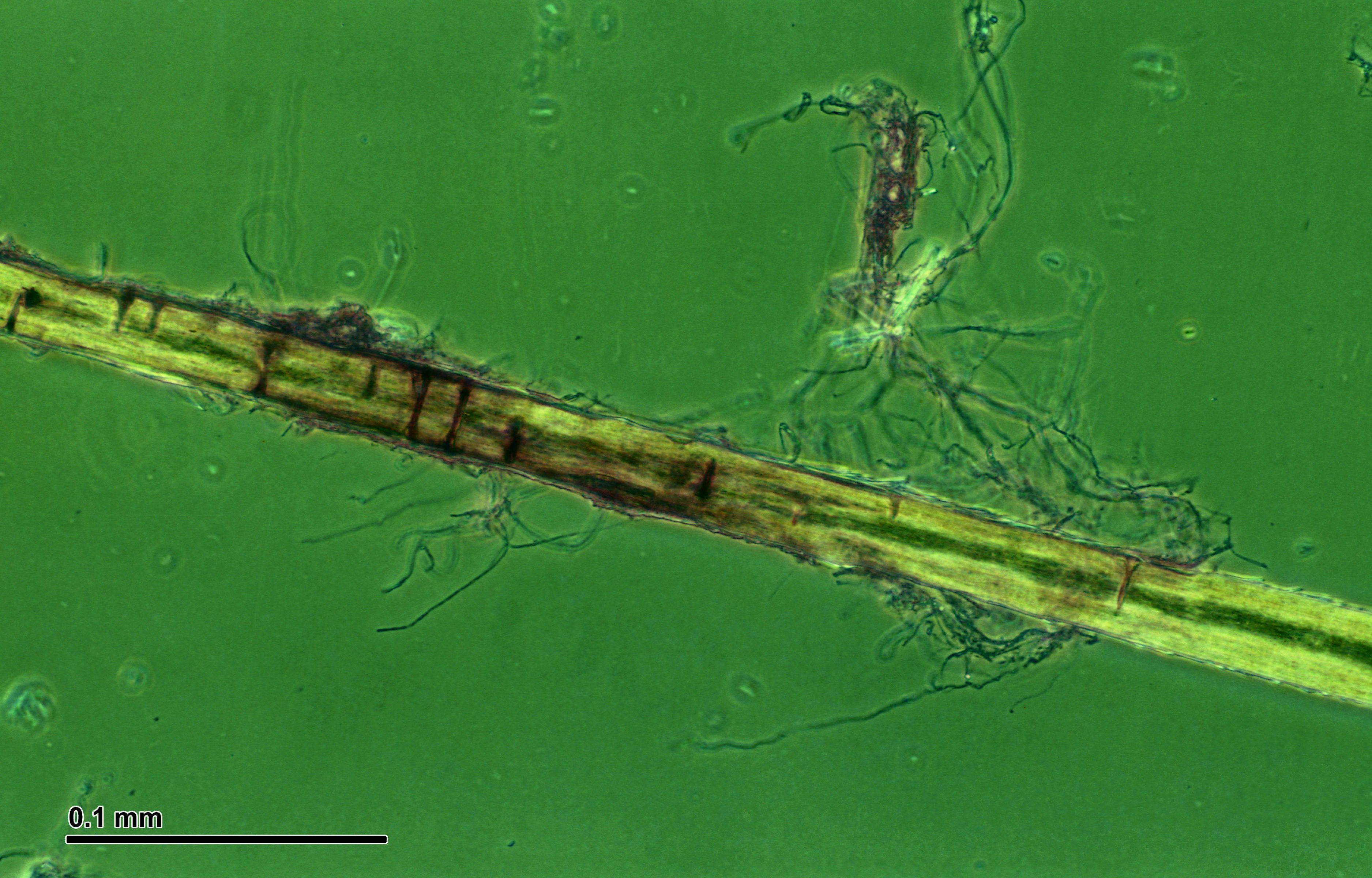 Trichophyton mentagrophytes (Trichophyton mentagrophytes): From a microculture and an infected hair. Optical microscopy technique: Positive phase contrast. Magnification: 600x (for picture width 26 cm ~ A4 format).